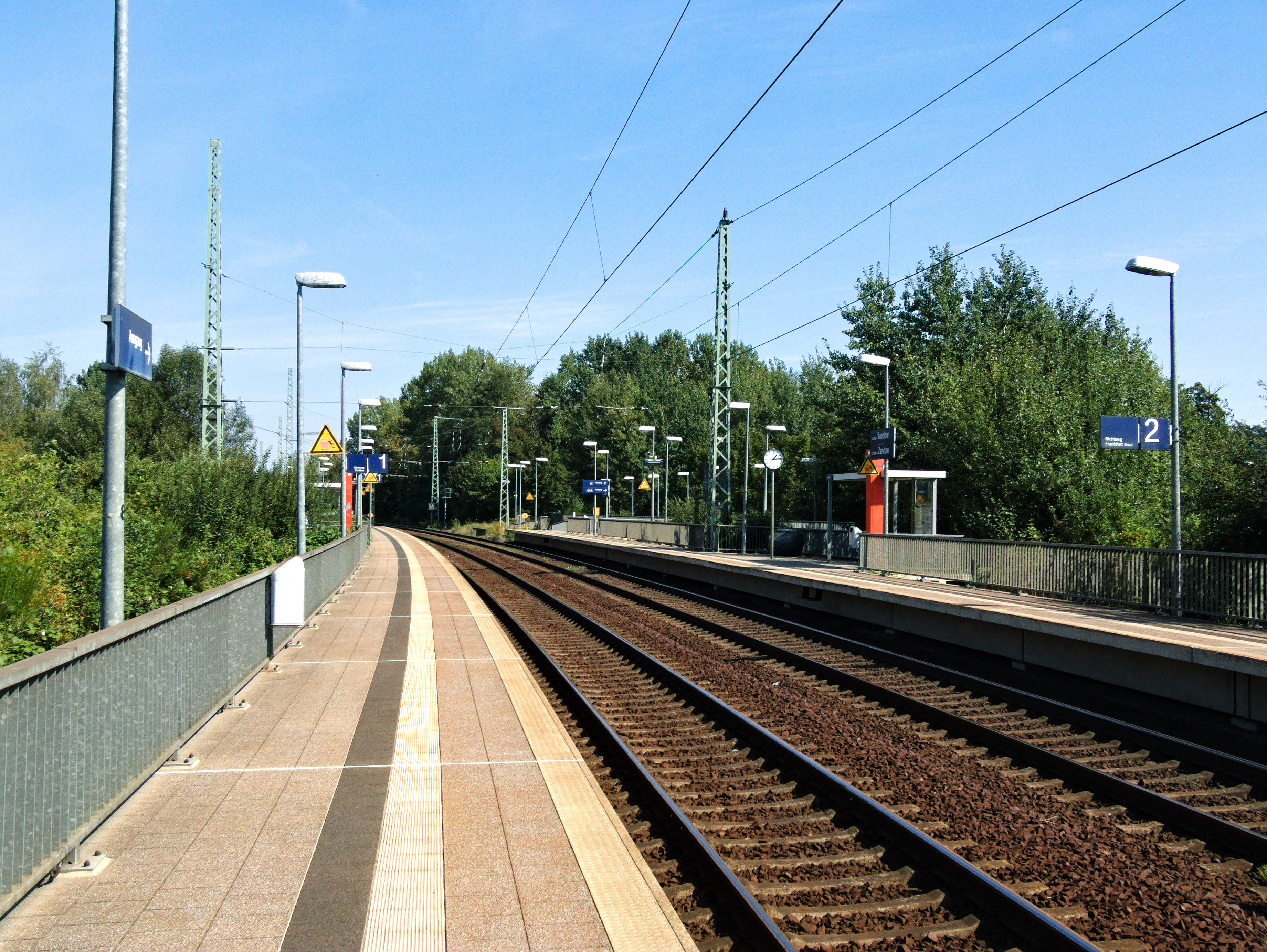 Train station "Cottbus-Sandow". Platforms 1 is for traffic in the direction of Cottbus main station, whereas platform 2 is served by stopping trains headed for Guben and Frankfurt (Oder).